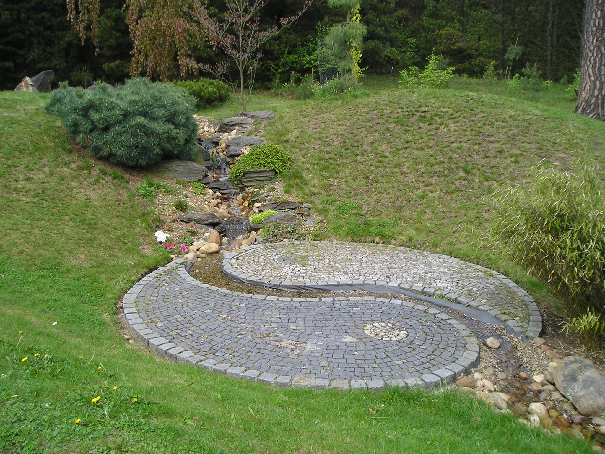 Sofronka arboretum, Pilsen